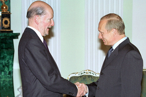 THE KREMLIN, MOSCOW. President Putin with Bulgarian Prime Minister Simeon Saxe-Coburg Gotha.